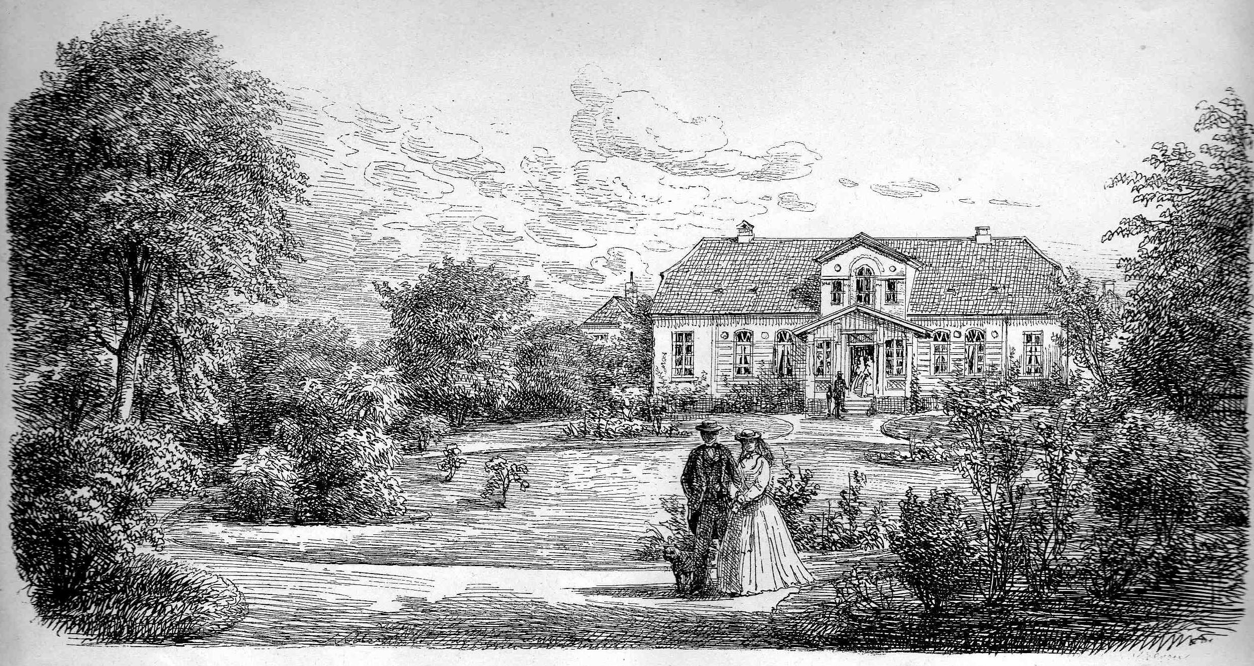 Scanned by myself from a copy of the old book in 2007. The book was graciously lent to me by Det Kongelige Garnisonsbibliotek.